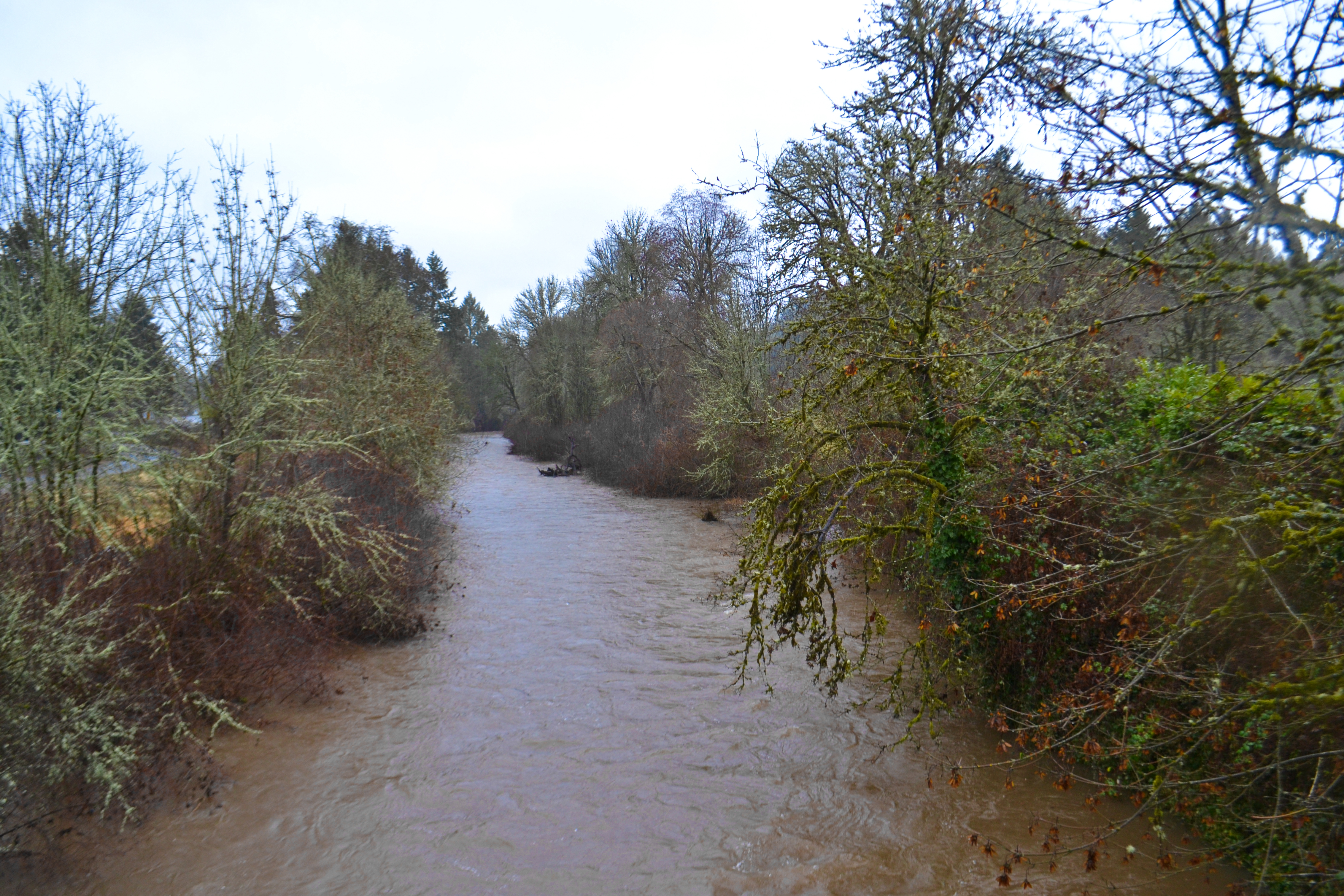 High water on the Mohawk River during January storm, taken from Wendling Road, Marcola, Oregon.